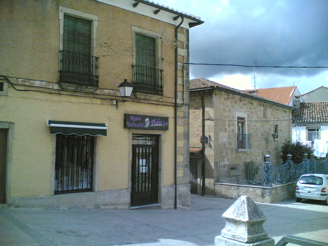 A children's clothes store in Valverdi du fresnu, in Spain.